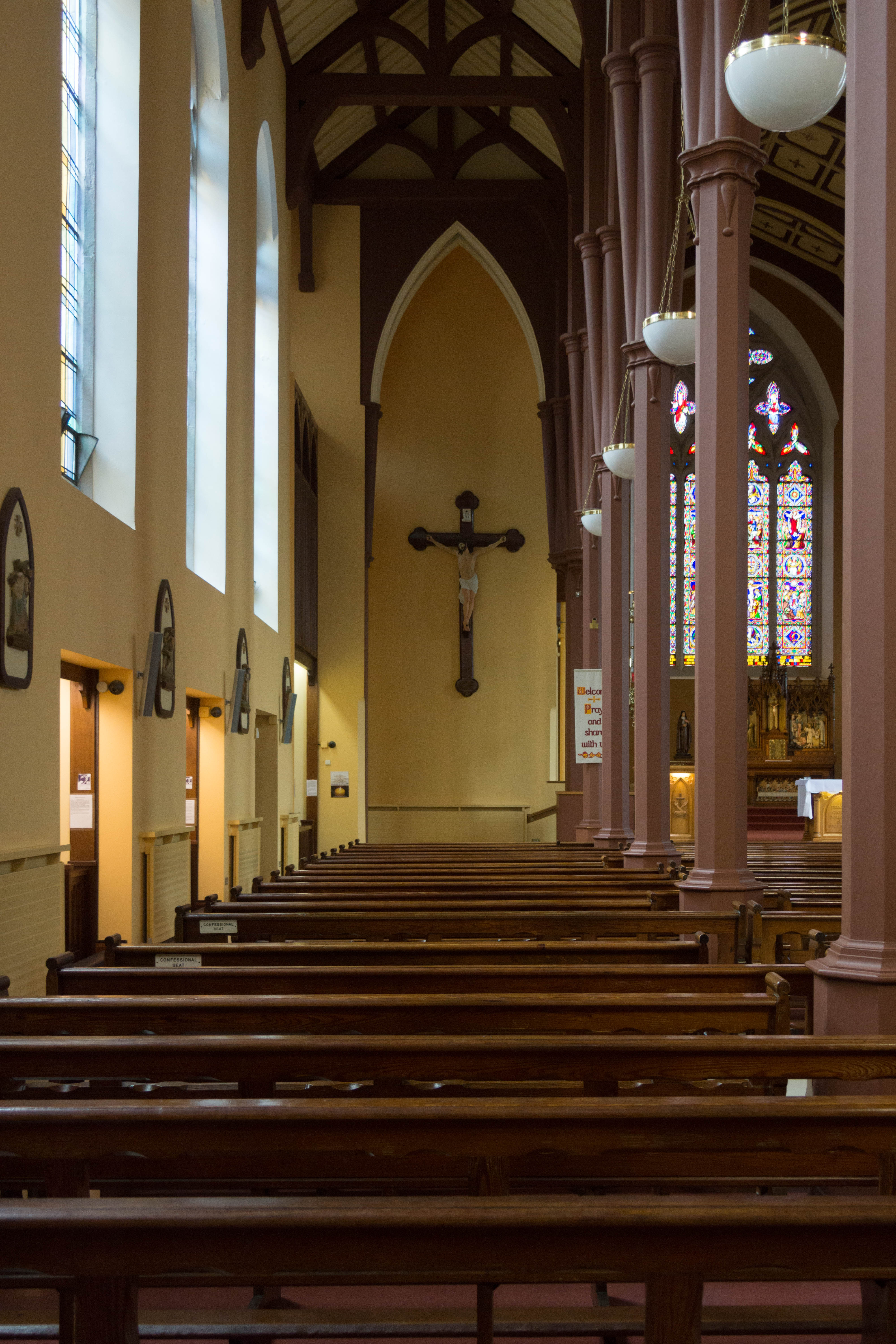 This image is the transept section in the Holy Trinity Church in County Cork